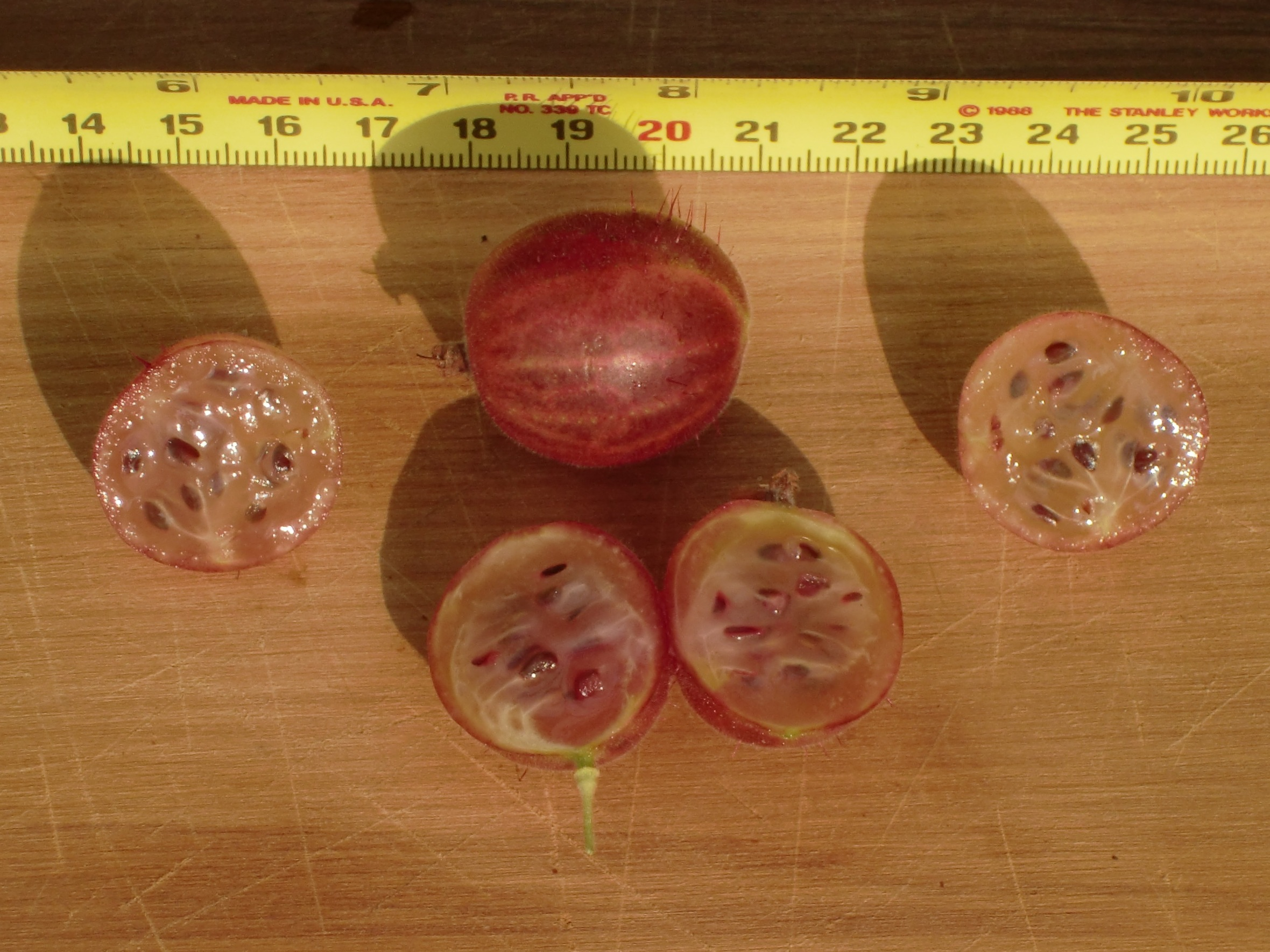 Red Gooseberries with scale. One sectioned horizontally another vertically